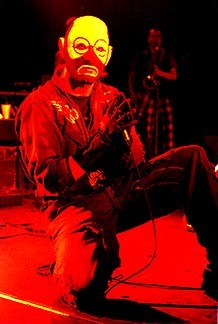 . Author: Heather Leah Kennedy